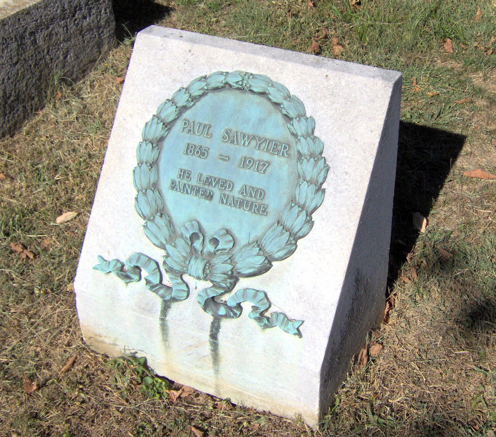 Gravestone of Impressionist artist Paul Sawyier at Frankfort Cemetery in Frankfort, Kentucky.